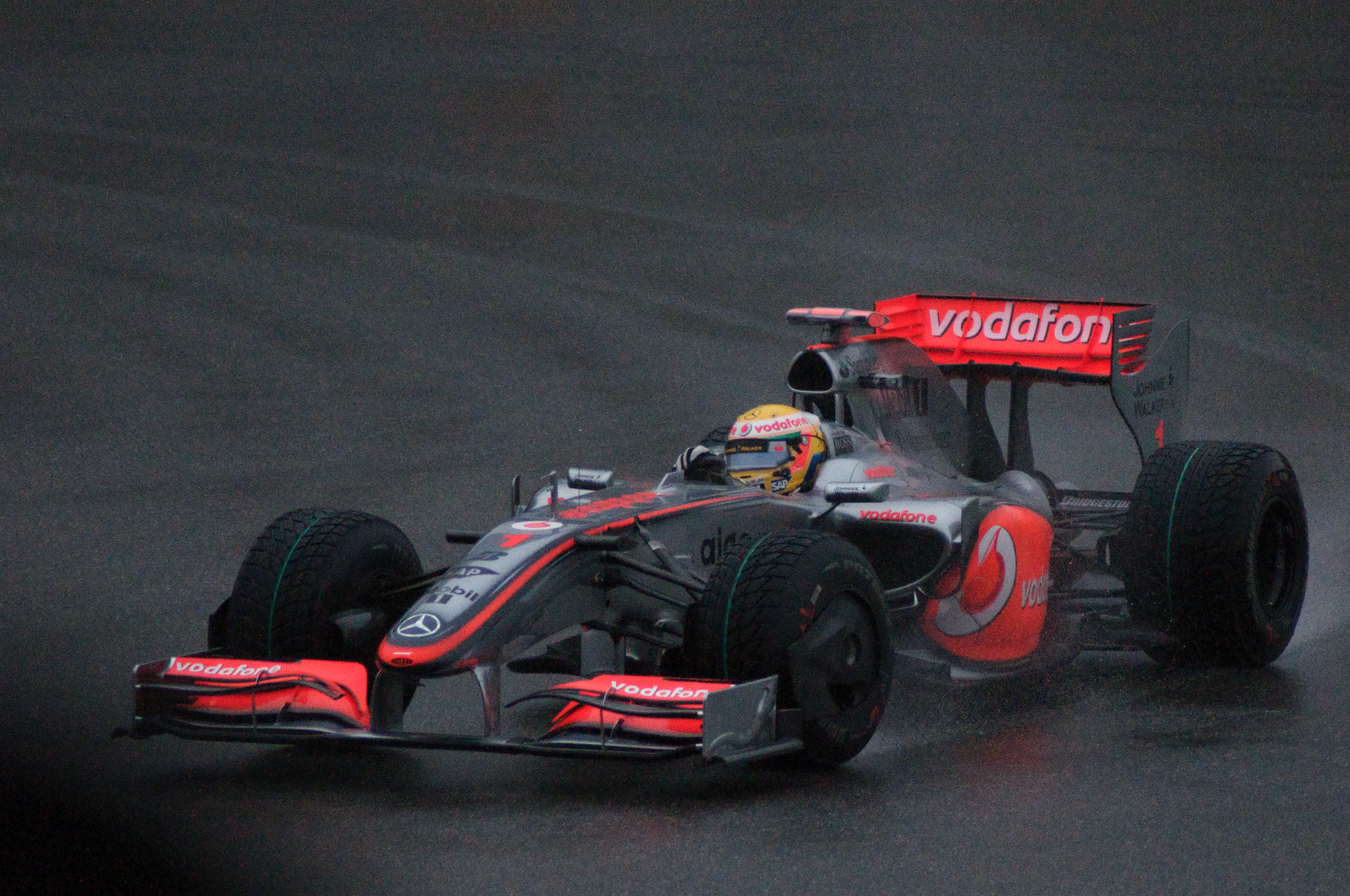 Lewis Hamilton driving for McLaren at the 2009 Chinese Grand Prix.